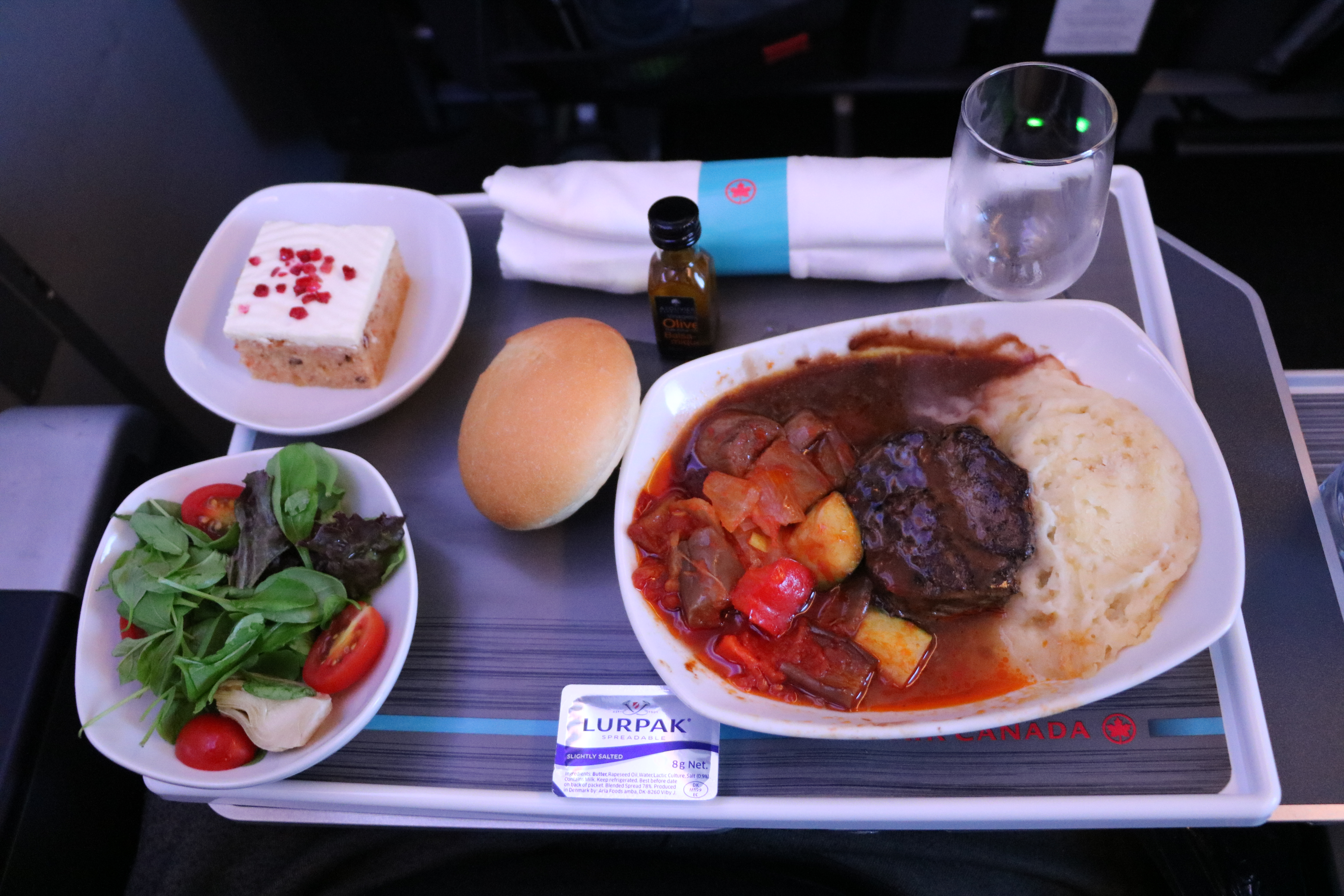 Air Canada Meal for Premium Economy class. Flight from AC12 Taipei to Vancouver in 2017/08/05